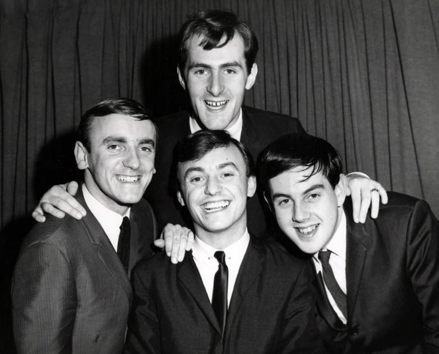 Photo of Gerry and the Pacemakers musical group in 1964 taken by a New York photographer. This appears to be their first trip to the United States, likely to appear on The Ed Sullivan Show.